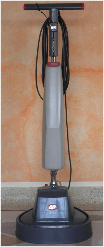 Floor polishing machine brand Lux International